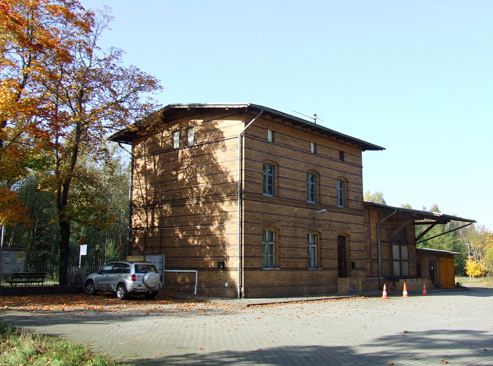 Station building of "Bagenz".